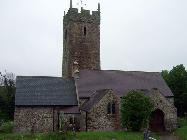 St Decuman's, Rhoscrowther A large cruciform mediaeval church which now stands alone, almost the sole survivor of the deserted village of Rhoscrowther. Supposedly founded by St Decuman(us) or Degman, an early Christian saint who was born here and crossed the Severn in a coracle to Somerset where, in Watchet, is the only other church dedicated to him. It is thought that his cell that once formed part of the church; there is also St Degman's well not far away. The earliest parts of the church go back to C13/14. It was restored twice in the C19 and again in 1910. Services are still held for the exiled villagers.